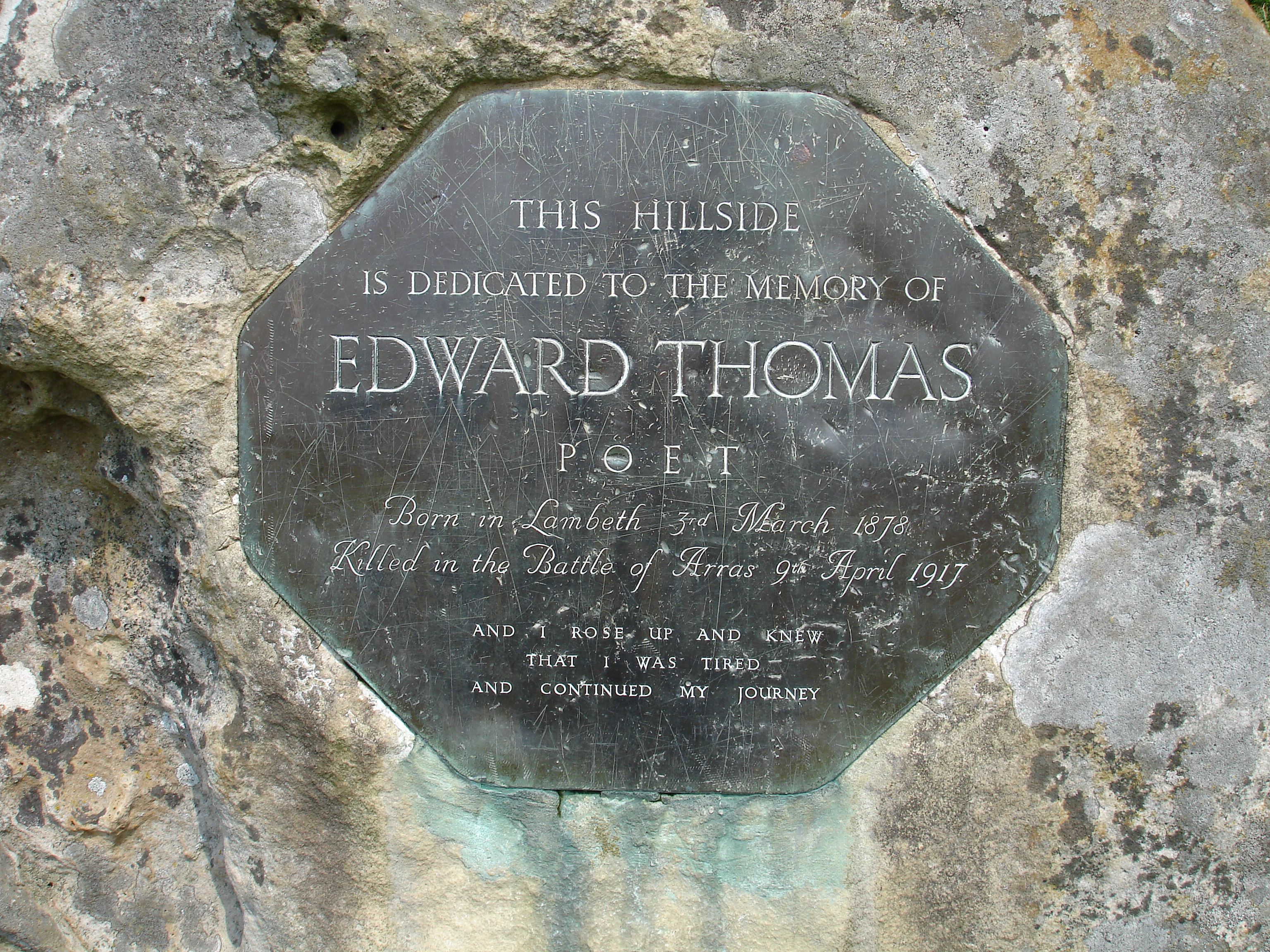 Edward Thomas' memorial stone on a hillside near Steep. Suzanne Knights, my photo, July 2006